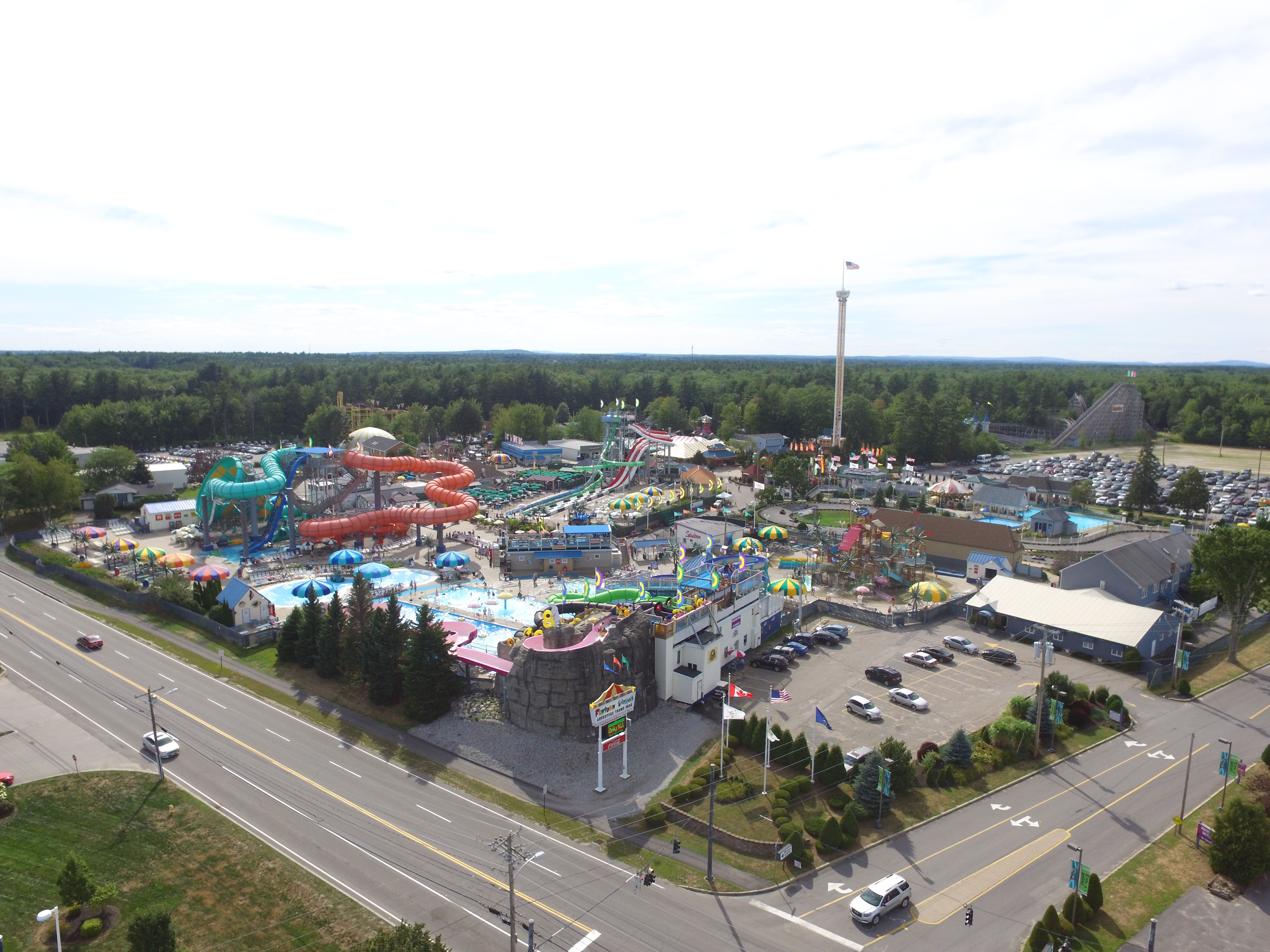 Funtown Amusement Park, with splashtown in the foreground. The "Dragon's Descent" and "Excalibur" rides visible in the background.